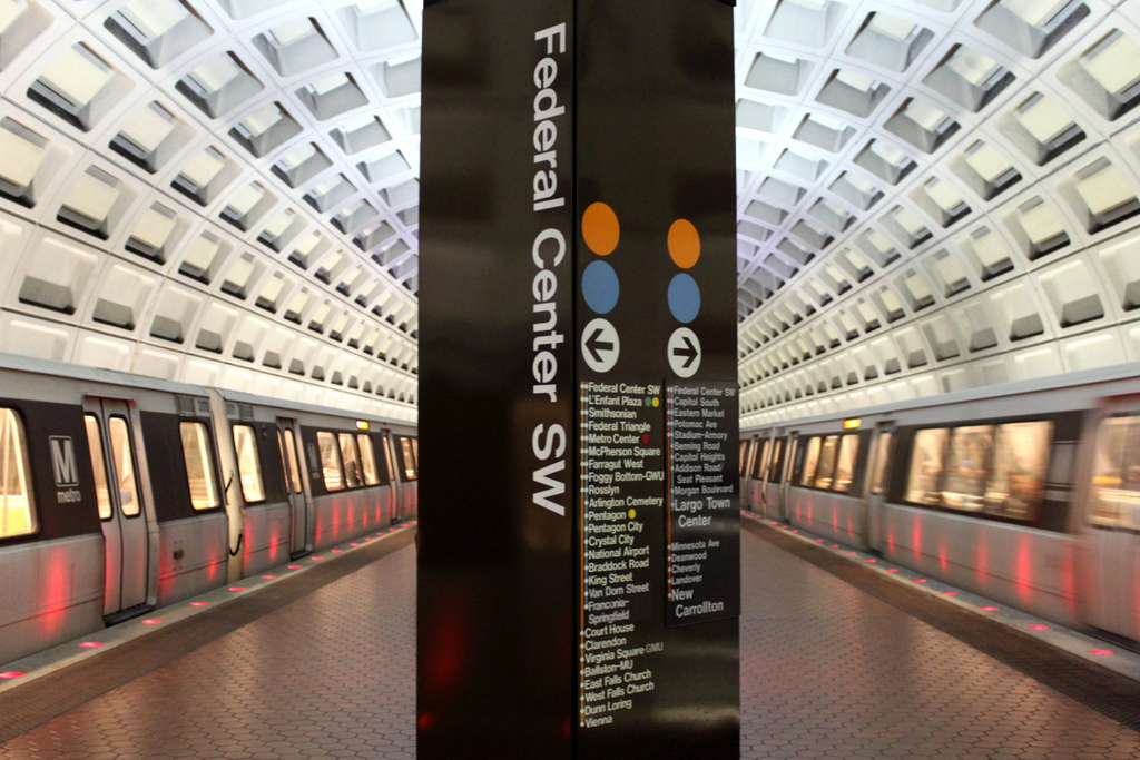 Federal Center SW Metro station